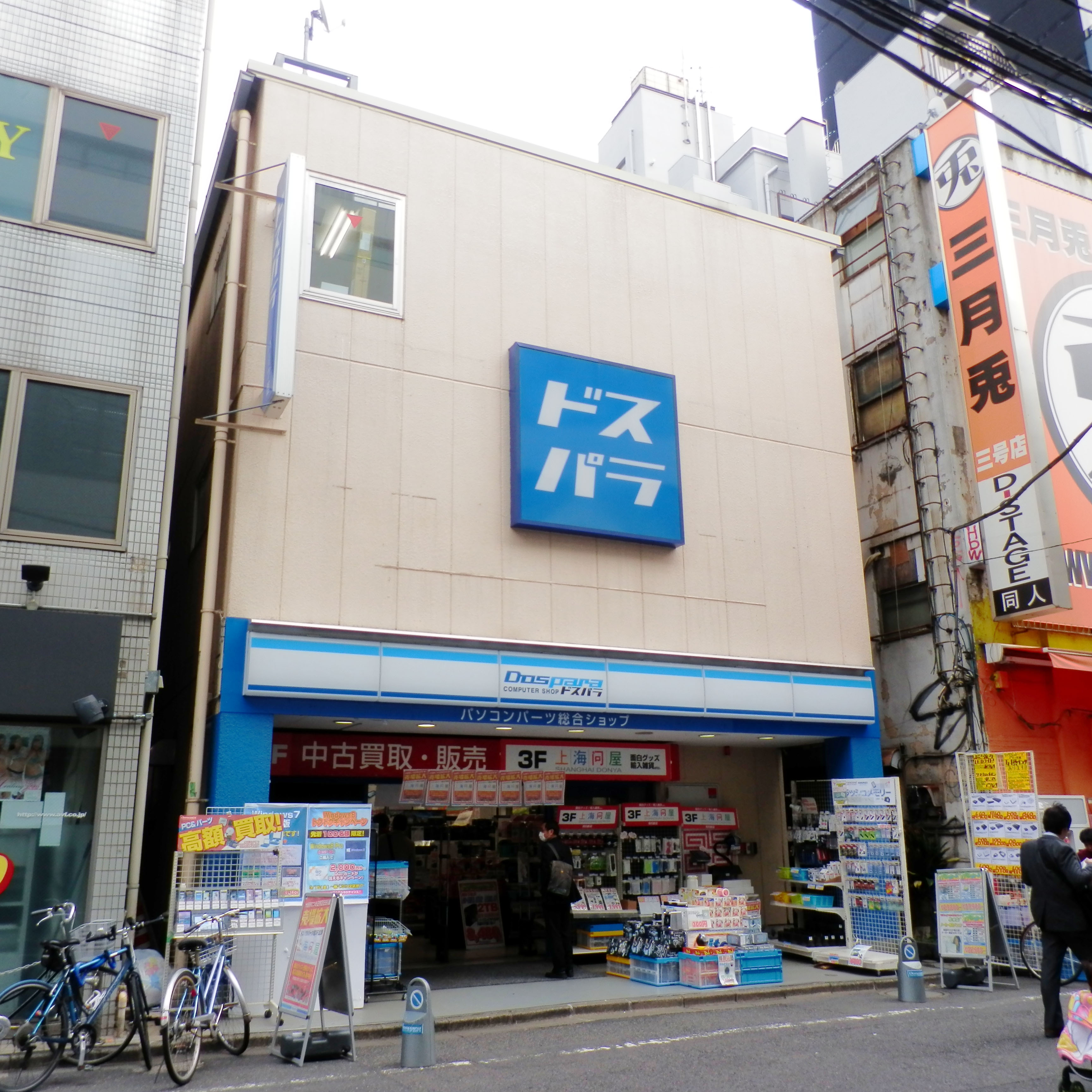 Dospara parts-kan (Computer parts store in Akihabara (3-11-4 Sotokanda, Chiyoda), Tokyo, Japan)